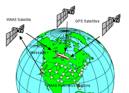 This graphic attempts to illustrate the operation of Wide Area Augmentation System (WAAS). I created this image. Dual Freq 15:09, 19 November 2005 (UTC)